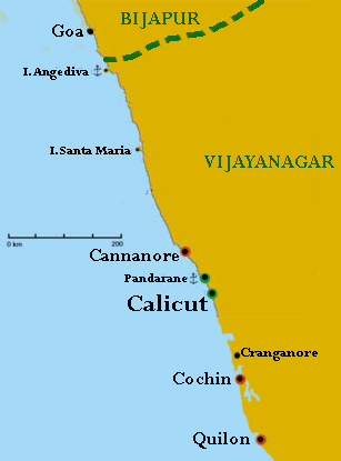 Citadels on Kerala coast after Cabral's expedition(1500). Red = Portuguese-allied; Green = Calicut-allied.